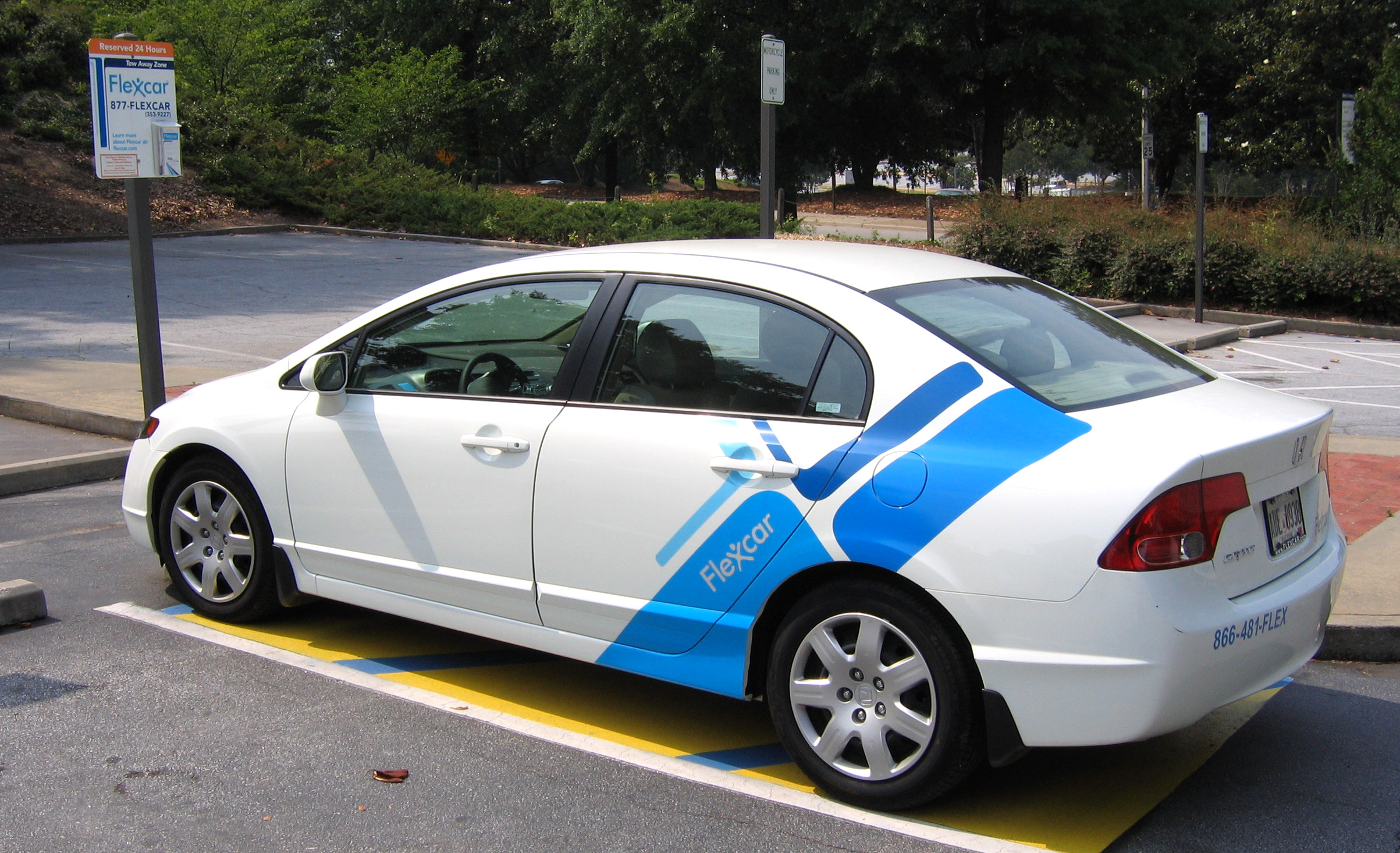 Description: A Flexcar on Georgia Tech's campus. Source: I, User:Disavian, took this picture on 2007-05-27